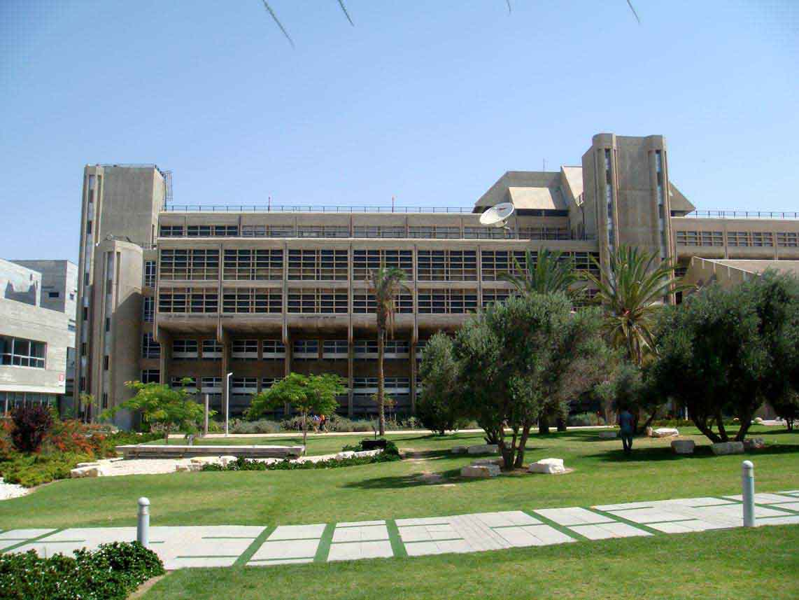 Zuker-Goldstein-Goran Building at Ben-Gurion University of the Negev